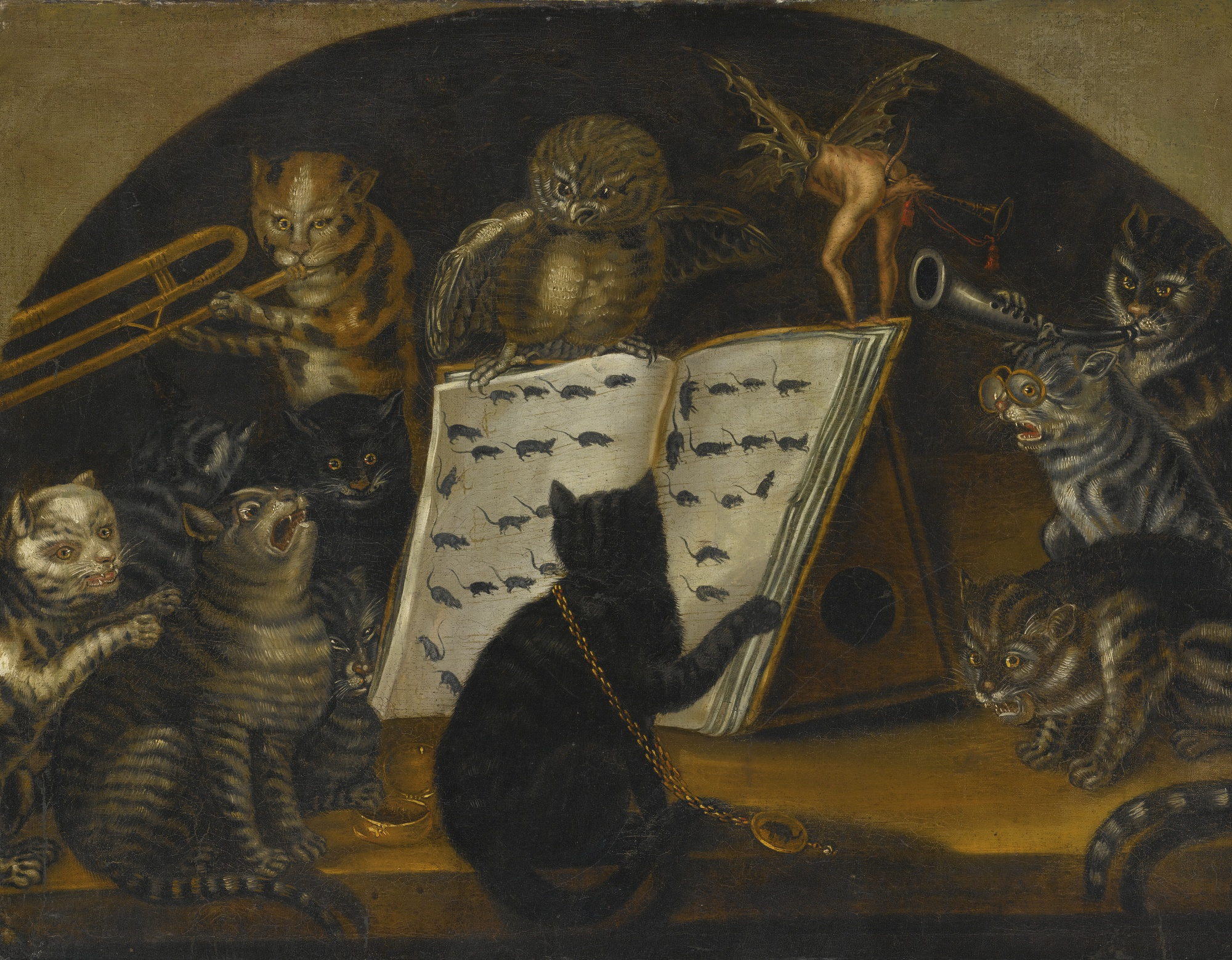 According to the auction house: Cats being instructed In the art of mouse-catching by an owl Looks more like: A cat orchestra/choir directed by an owl, with sheet music made of little drawings of mice Oil on canvas, within a painted lunette, 83.5 by 110.5 cm